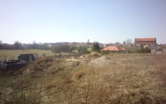 The City of Soldau (pl Dzialdowo) at the river Wkra 2015